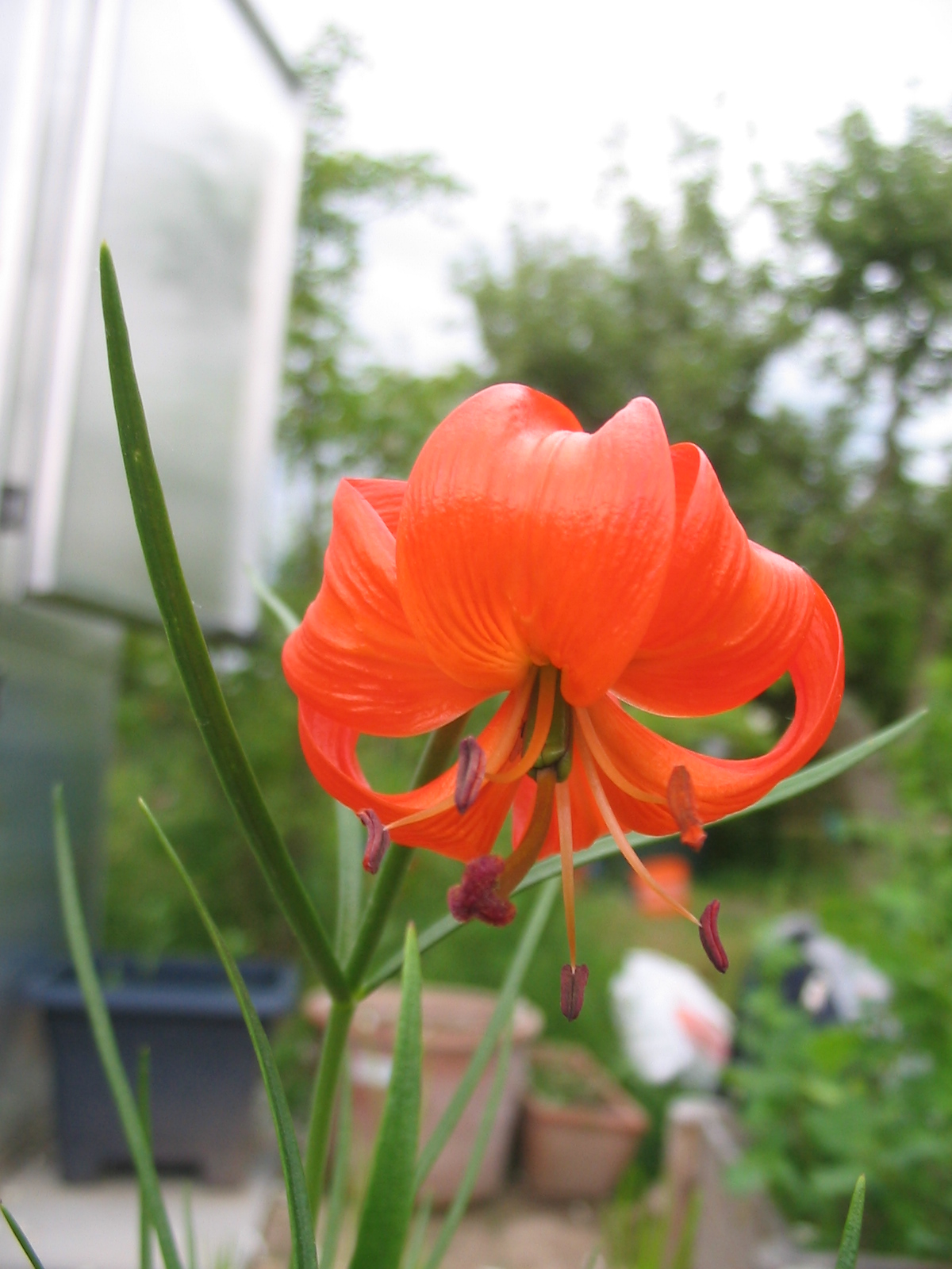 Flower of Lilium pumilum